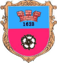 Coat of arms of Petrushin (Chernihiv oblast)